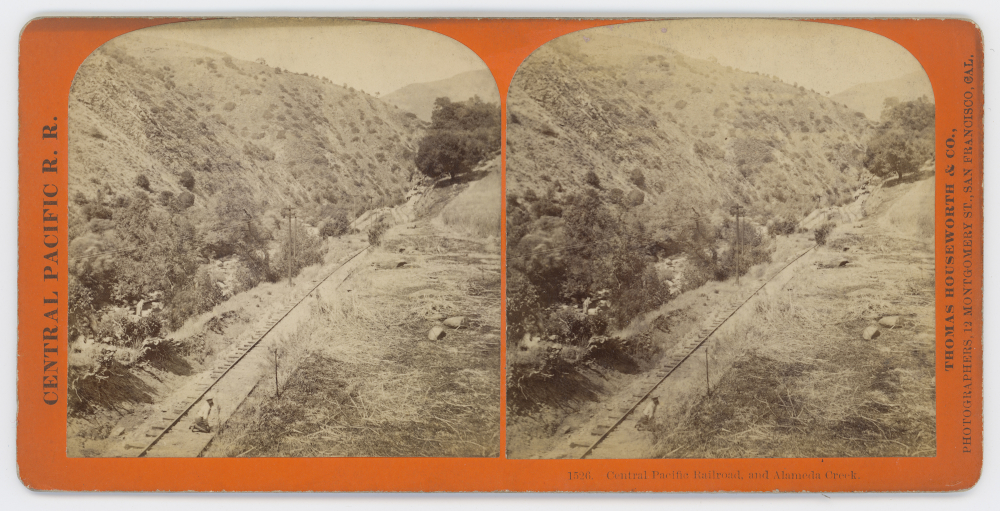 Title: Central Pacific Railroad, and Alameda Creek. Creator: Houseworth, Thomas, 1829-1915 Date: ca. 1867-1869 Place: California Part Of: Central Pacific Railroad stereographs Physical Description: 1 photographic print on stereo card: stereograph, albumen; 9 x 18 cm File: ag1987_0634_13_r_central_opt.jpg Rights: Please cite DeGolyer Library, Southern Methodist University when using this file. A high-resolution version of this file may be obtained for a fee. For details see the web page. For other information, . For more information, see: View the U.S. West: Photographs, Manuscripts, and Imprints